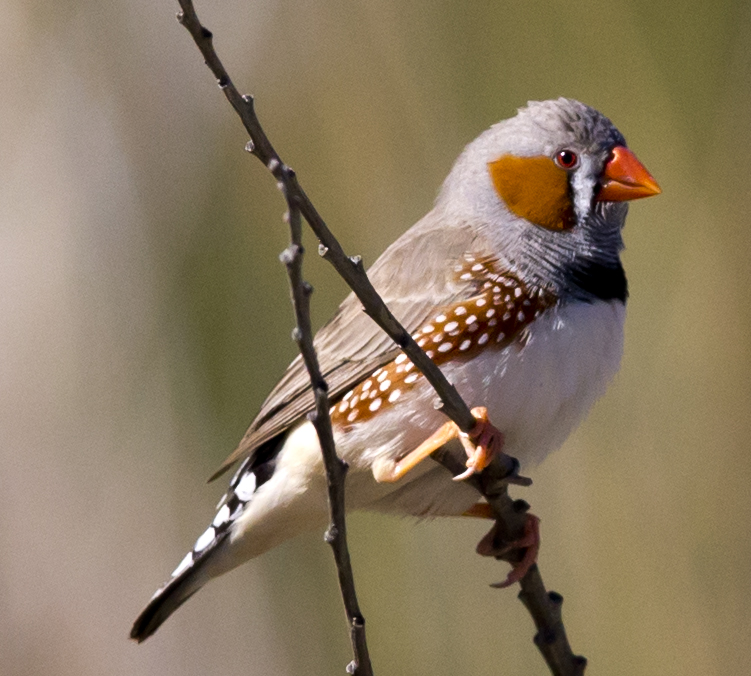 A male Zebra Finch in Karratha, Pilbara, Western Australia, Australia.